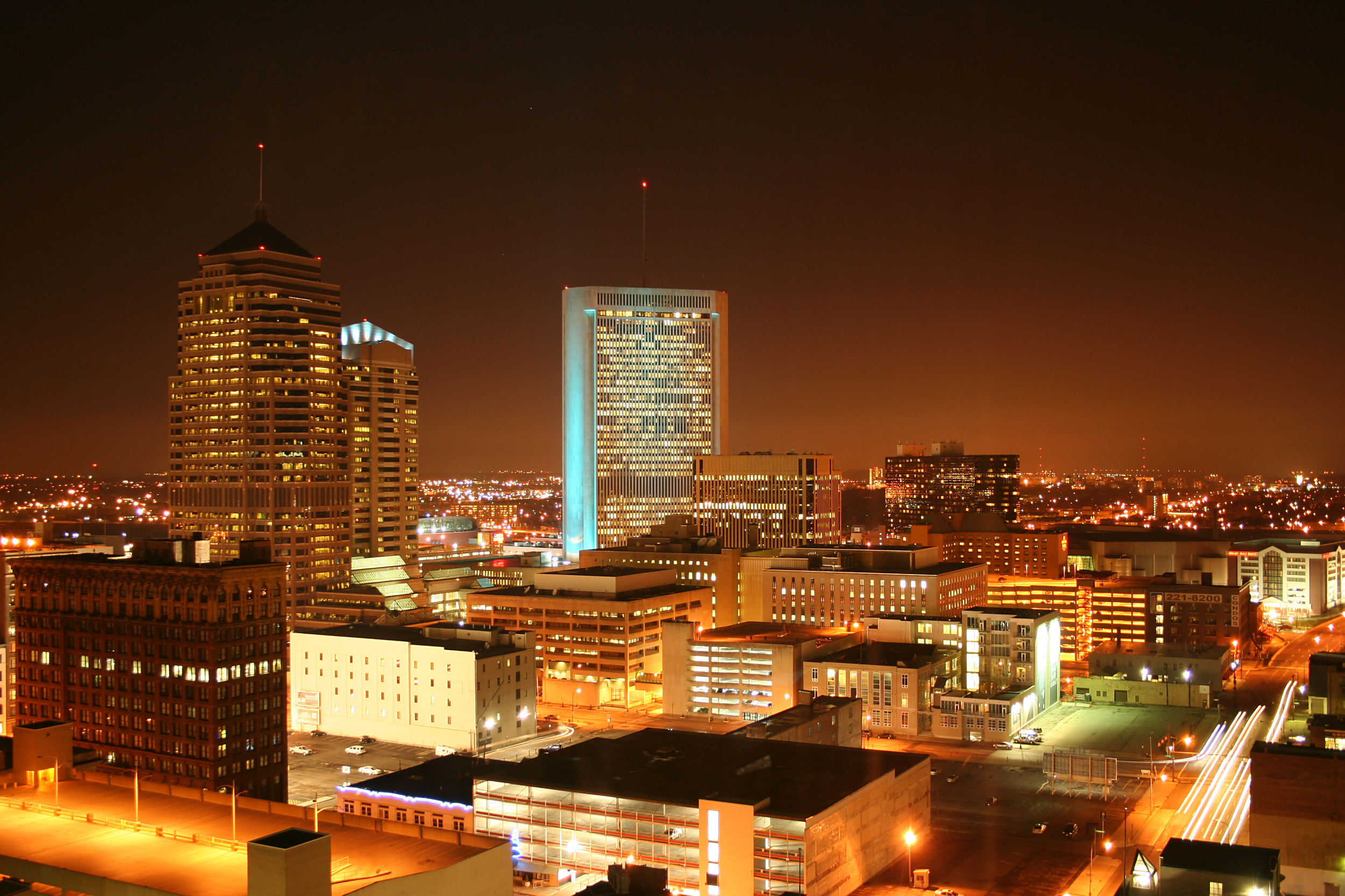 North side of Columbus, Ohio, looking across 3rd Street toward One Nationwide Plaza. Taken from the Renaissance Hotel. Photo shot by Derek Jensen (Tysto), 2006-01-23